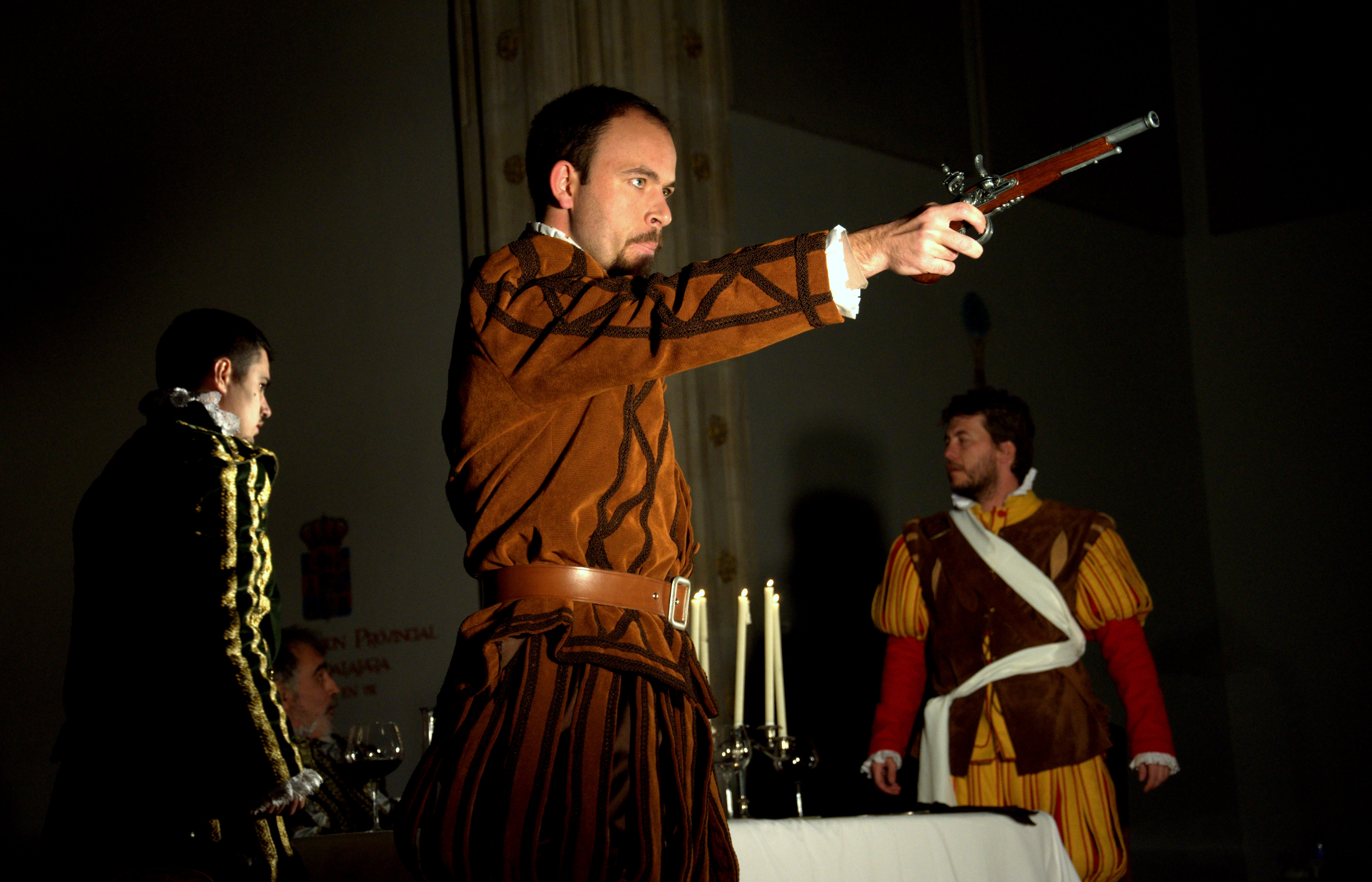 El Tenorio Mendocino scene